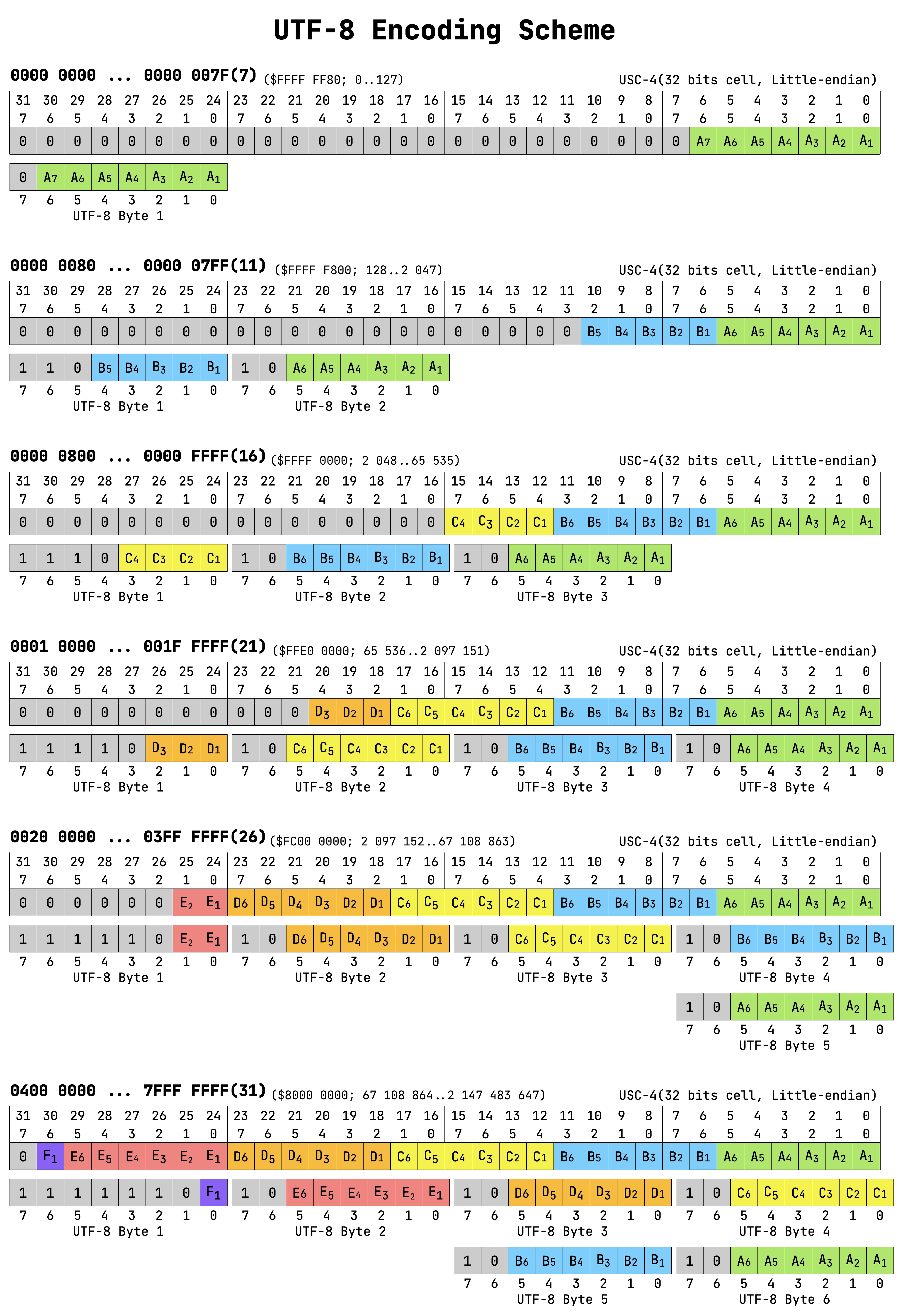 Detailed scheme of the UTF-8 encoding. Includes bits numbering and exact position of every bit. This scheme doesn't contain any localized labels (suitable for international use).